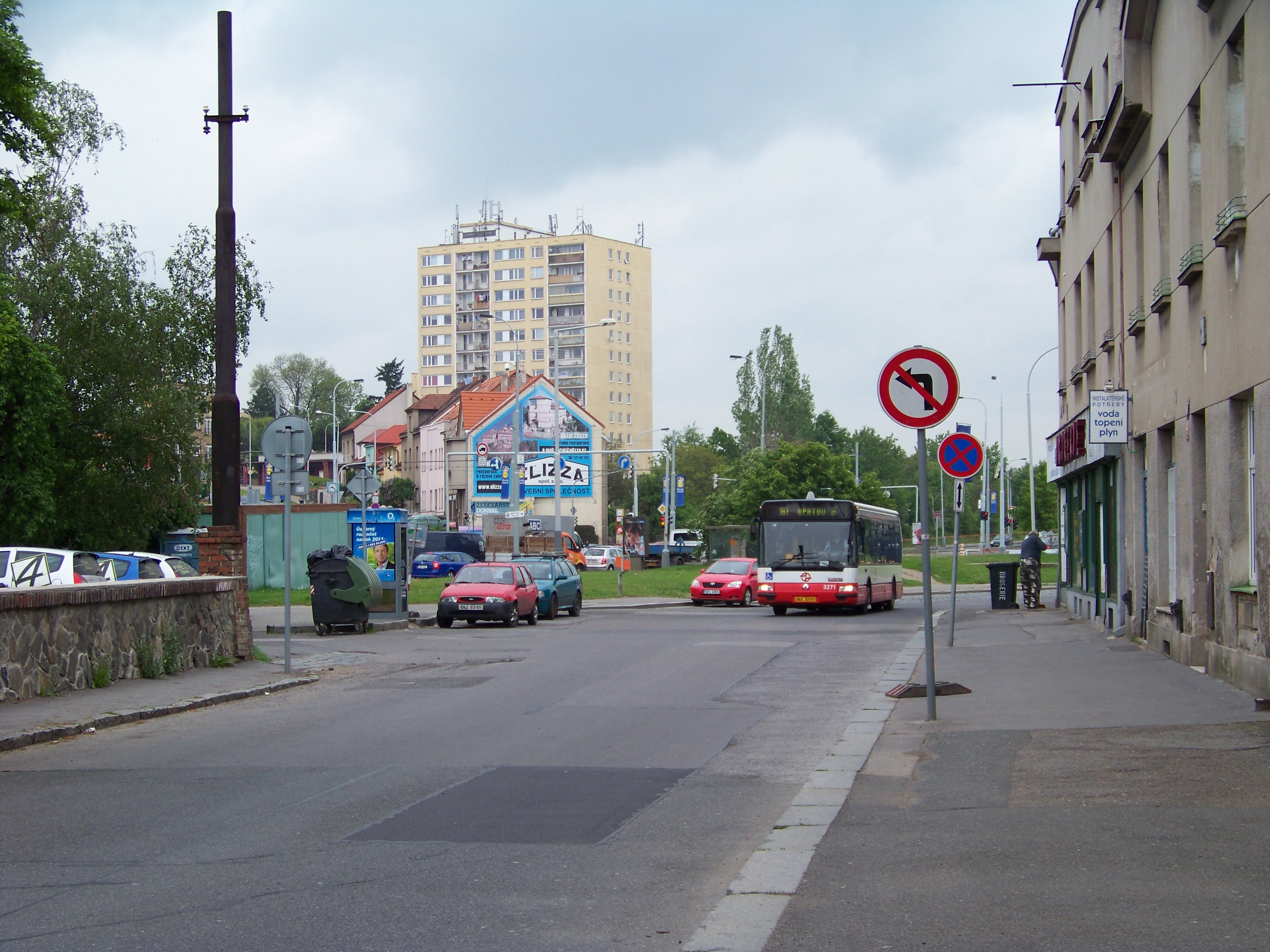 Hostivař, Prague, the Czech Republic. Hostivařská street. - Google Maps - Google Earth